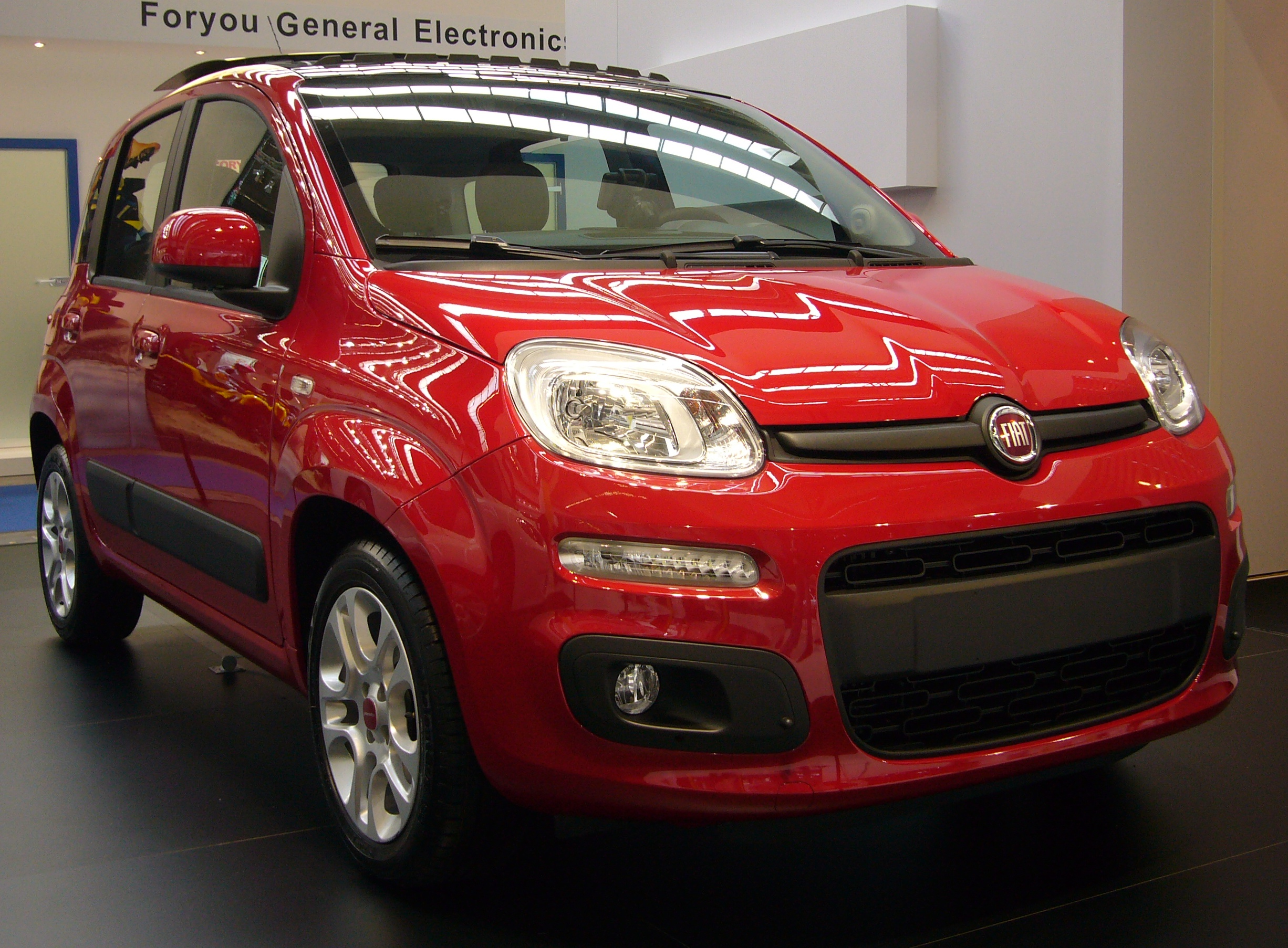 Fiat Panda at IAA Frankfurt 2011 (TomTom stand)